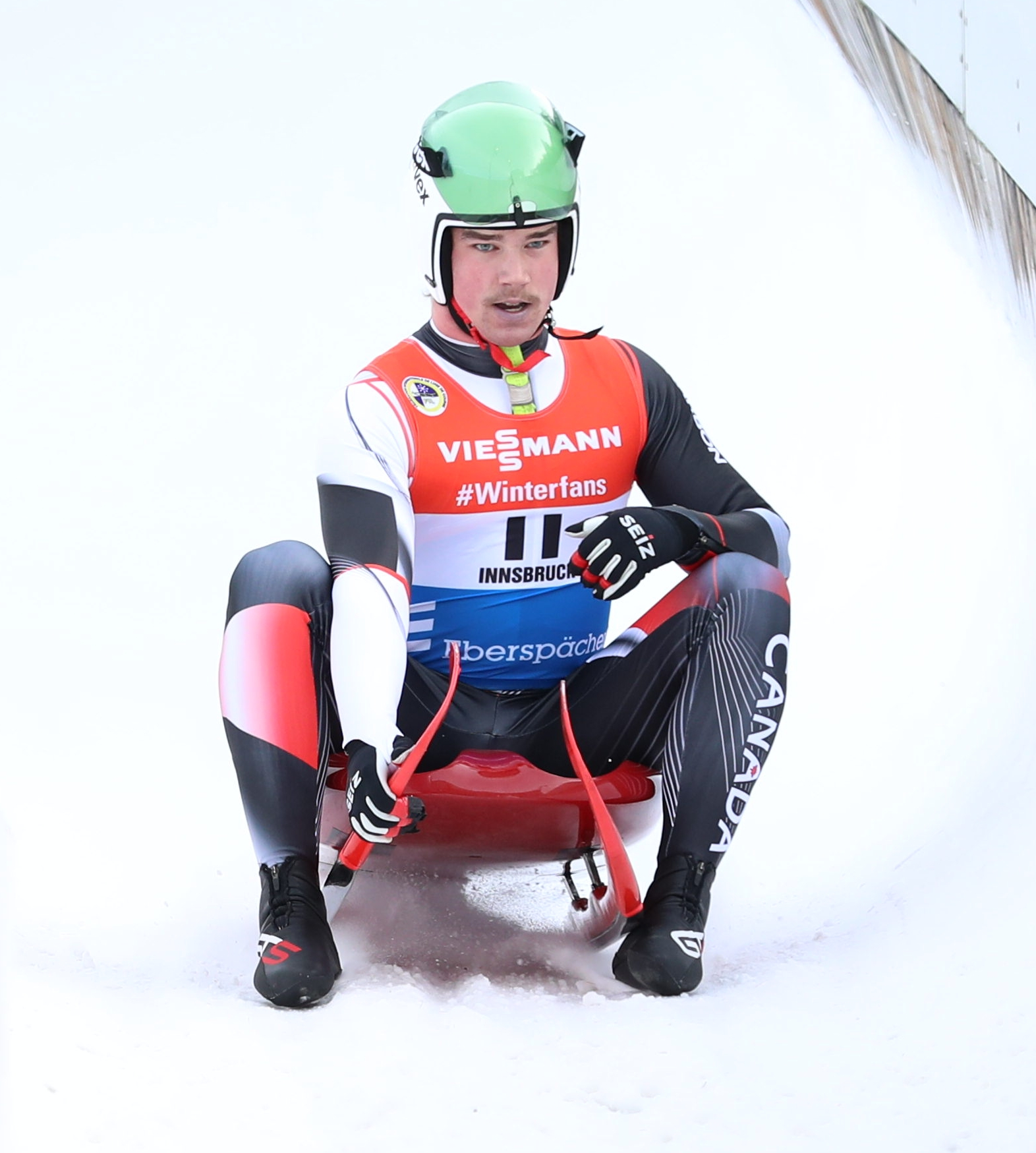 Men's World Cup race at the 2018/19 Luge World Cup in Innsbruck-Igls